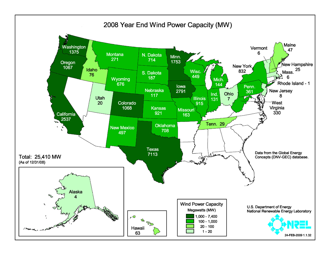 Map showing the installed U.S. wind power nameplate capacity in MW, by state, in 2008. (First upload gives interim values as of 2008-09-30; NREL will update this at year end, and I will upload the final version then.)